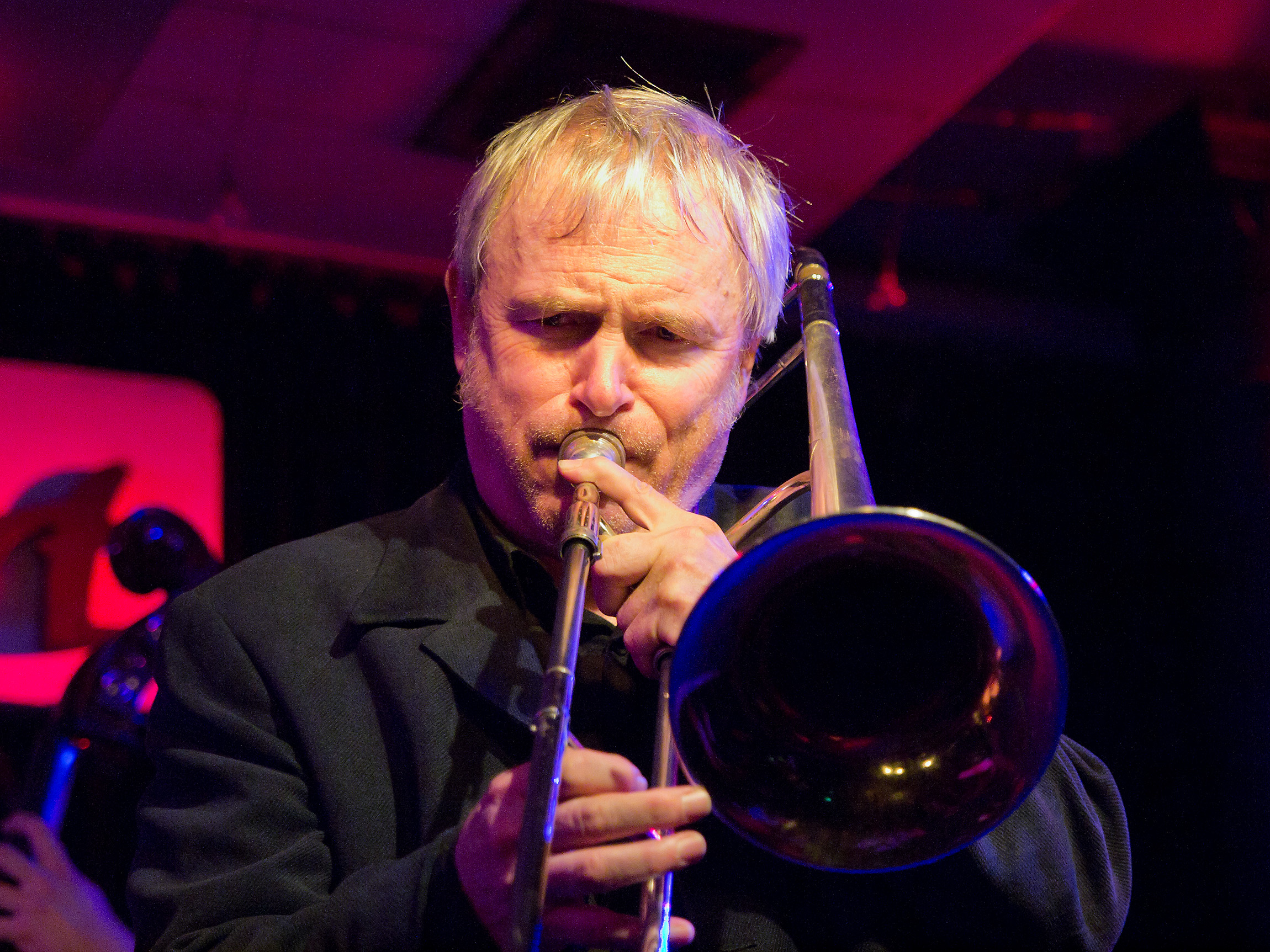 Marty Cook, Jazz trombonist; Picture taken in Jazz Club Unterfahrt, Munich/Bavaria